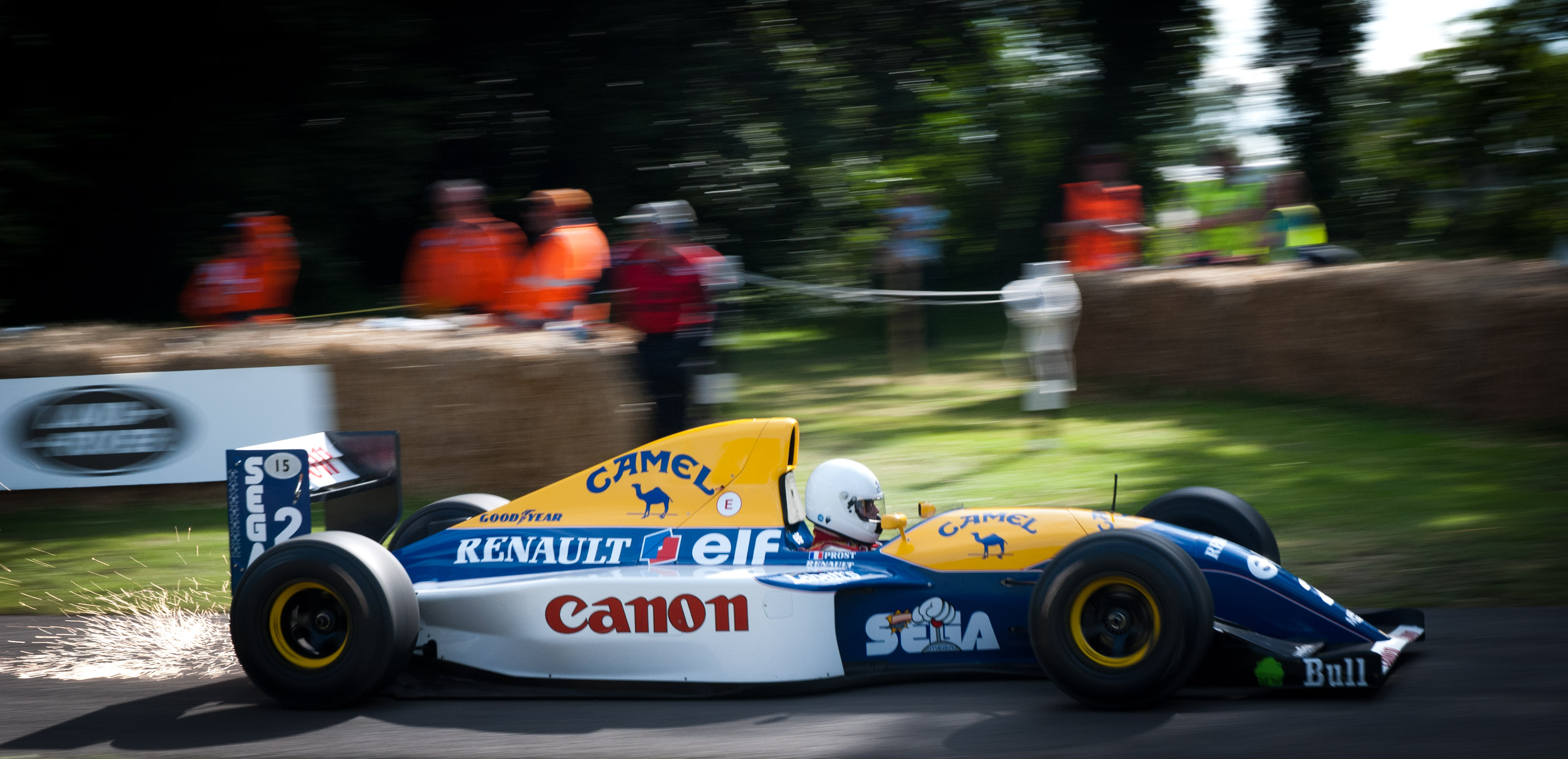 Williams FW15C, goodwood festival of speed, 2011